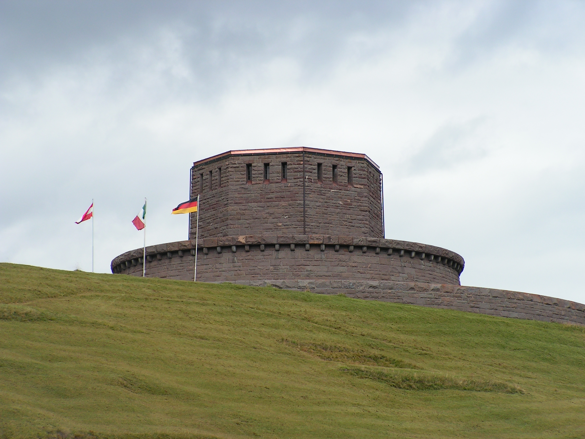 German Military Cemetery on the Pordoi Pass